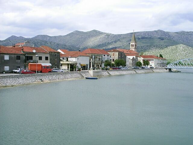 Town of Opuzen in Croatia